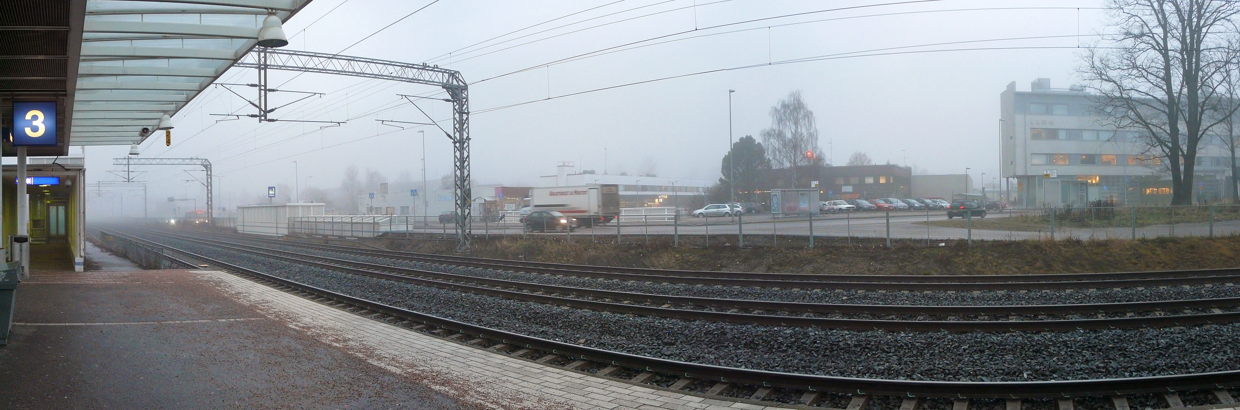 A view on the platform of Korso railway station in a foggy morning in 2009 November.